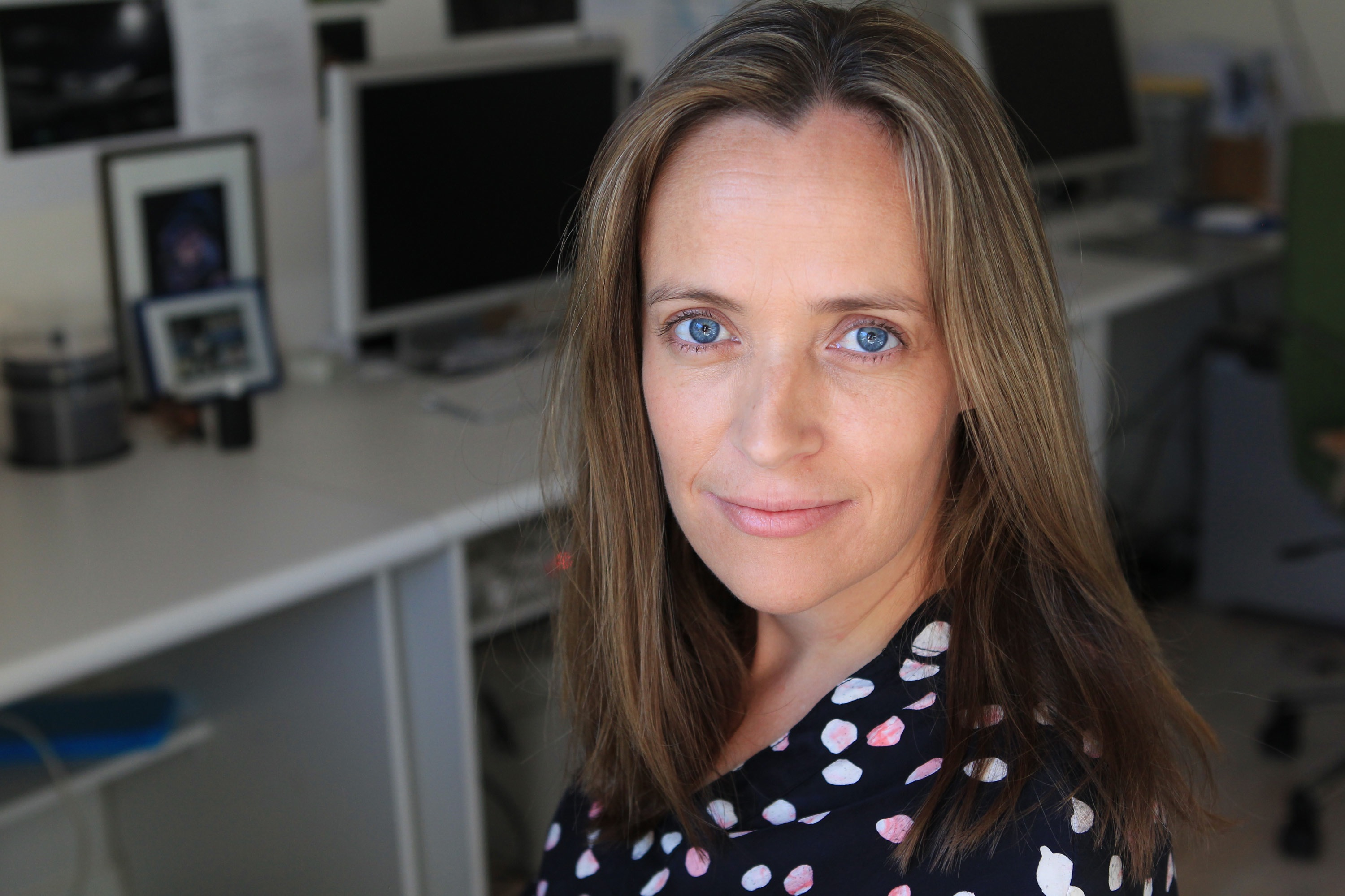 Jen Peedom headshot